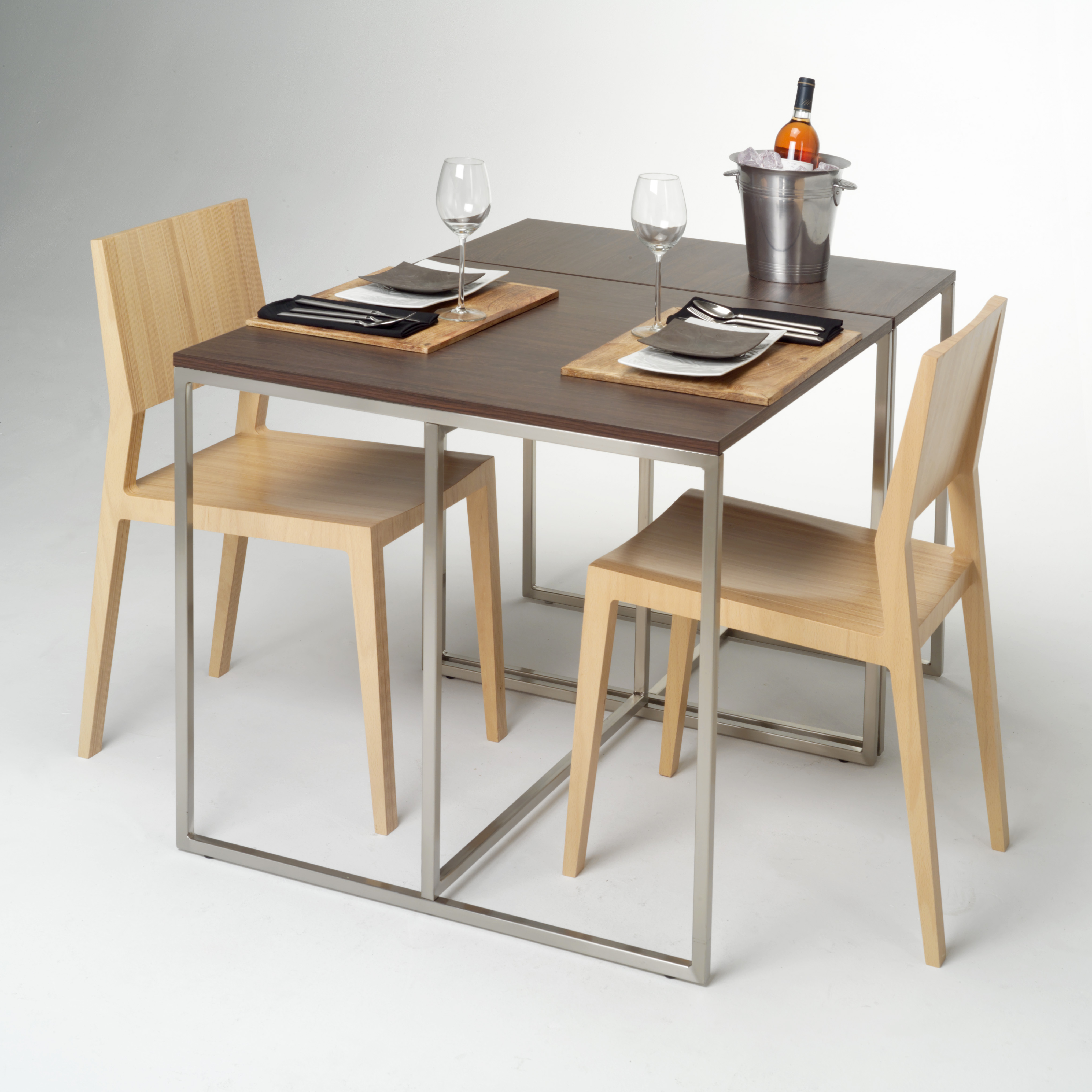 A table set for two people.